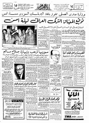 Al-Ahram Newspaper During Suez Crisis 25-02-1955